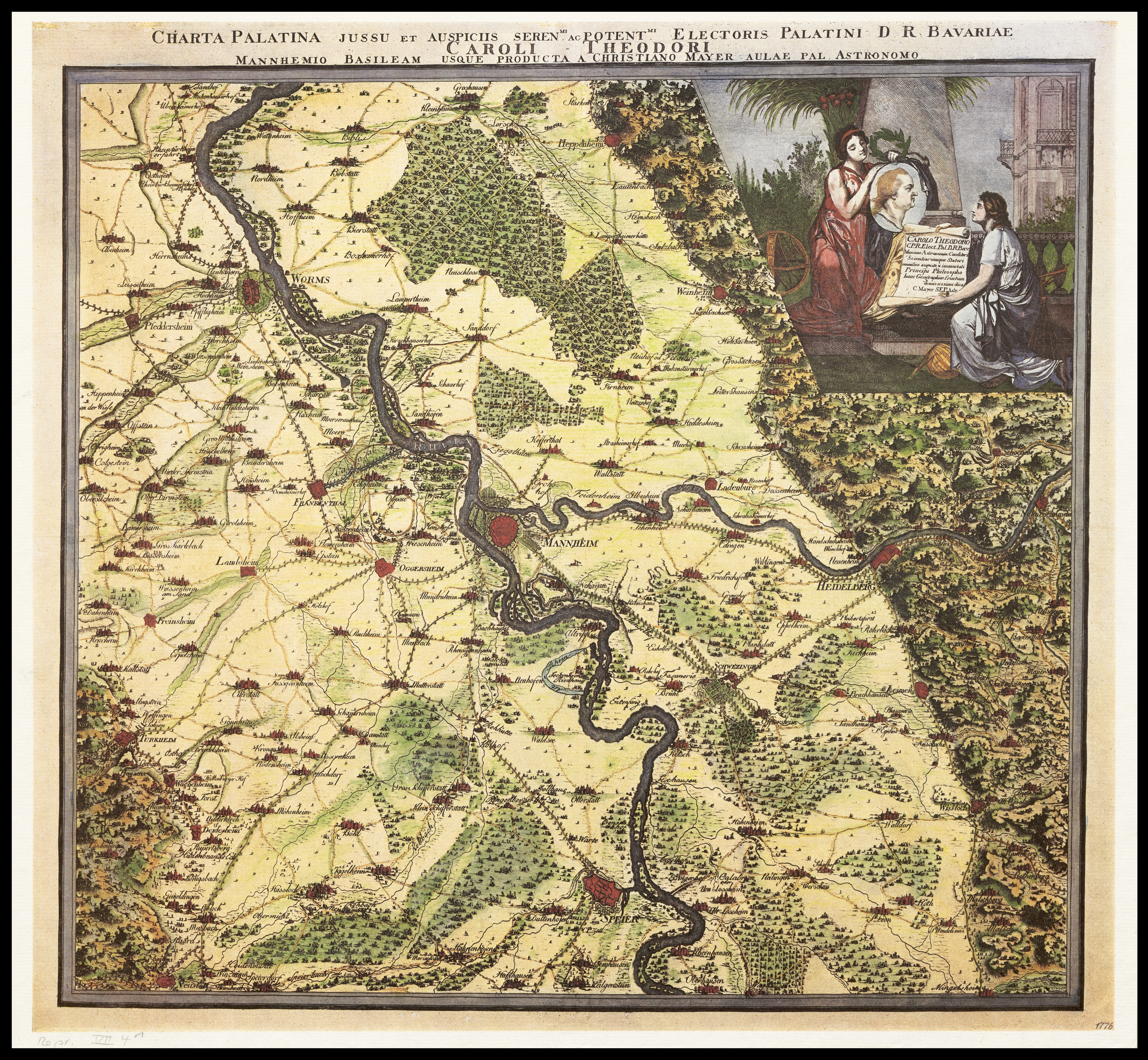 Old map of Mannheim and surroundings, Germany, by Christian Mayer. Engraving by Aegid Verhelst. Dedication cartouche with portrait of the ruler and allegorical depiction on the upper right.